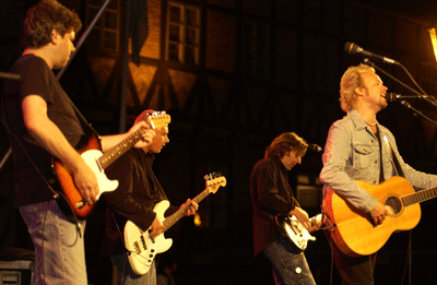 Svante Karlsson, Kulturnatten, Halmstad 2002